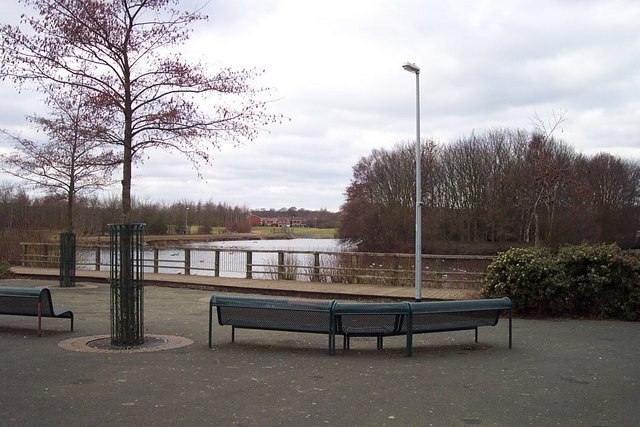 Lake in the Centre of Perton. Perton is a large housing estate built on the site of a former airfield